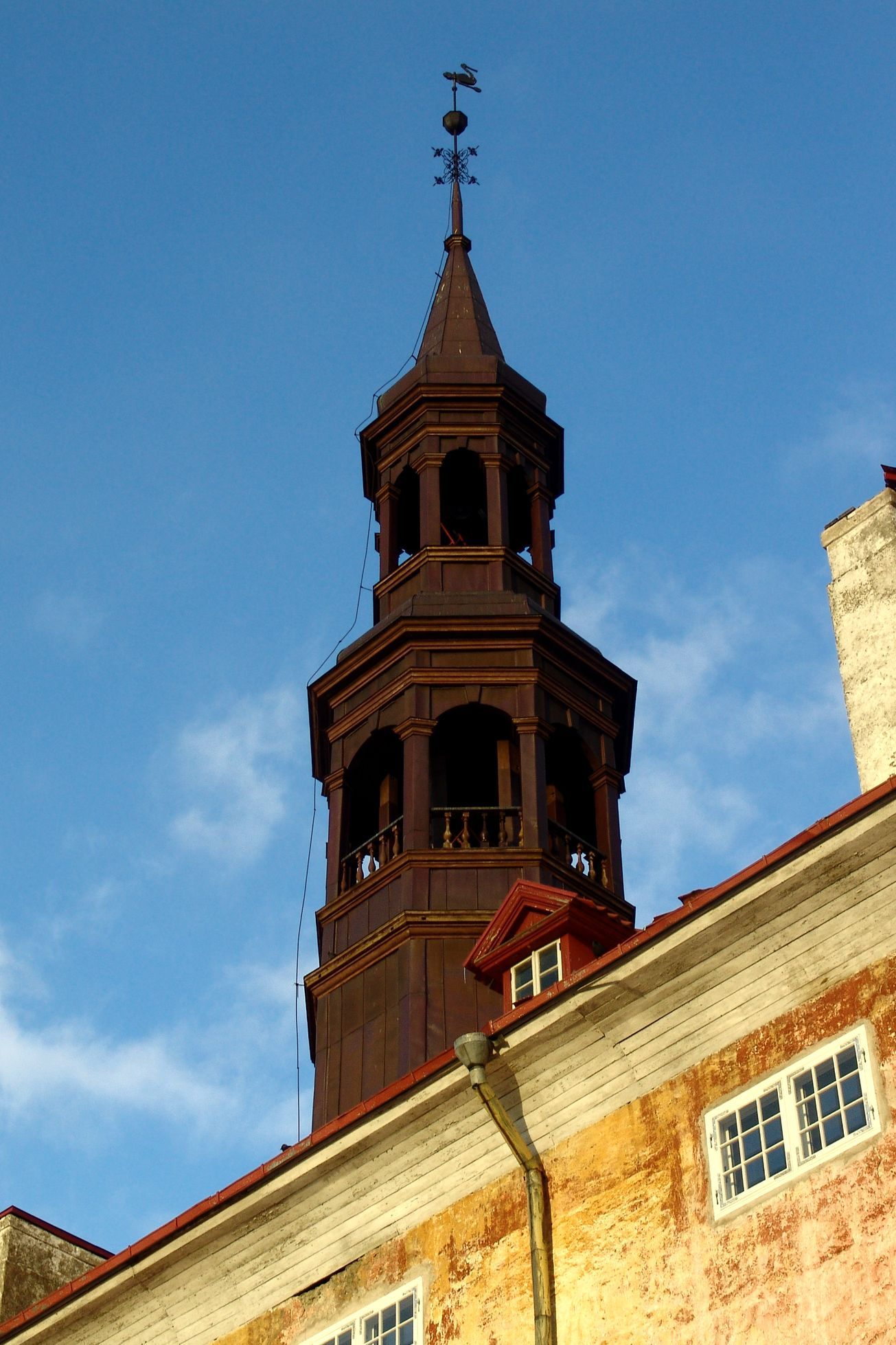 The tower of Narva Town Hall